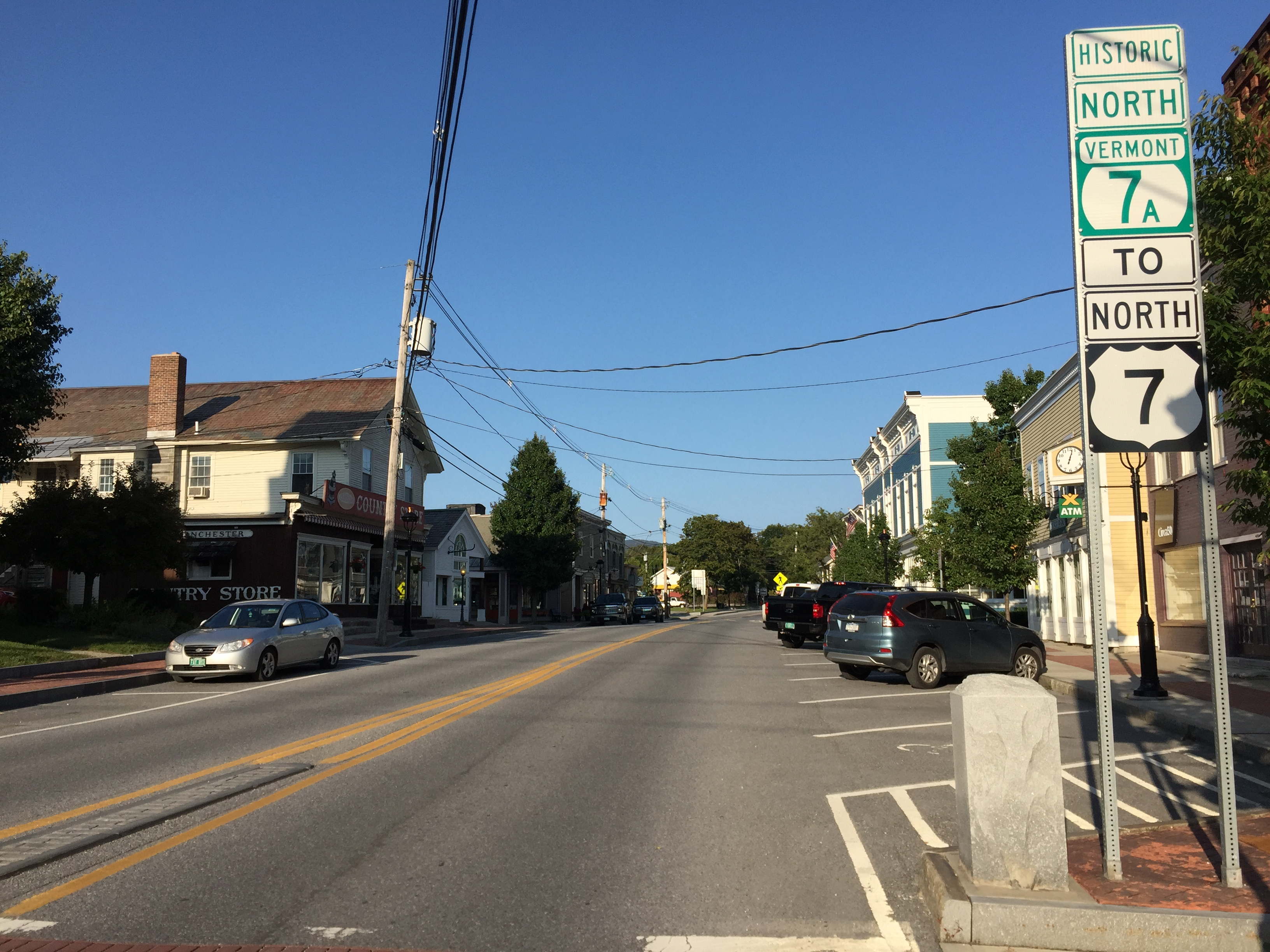 View north along Historic Vermont State Route 7A (Main Street) at Vermont State Route 30 (Bonnet Street) in the Manchester Center section of Manchester, Bennington County, Vermont